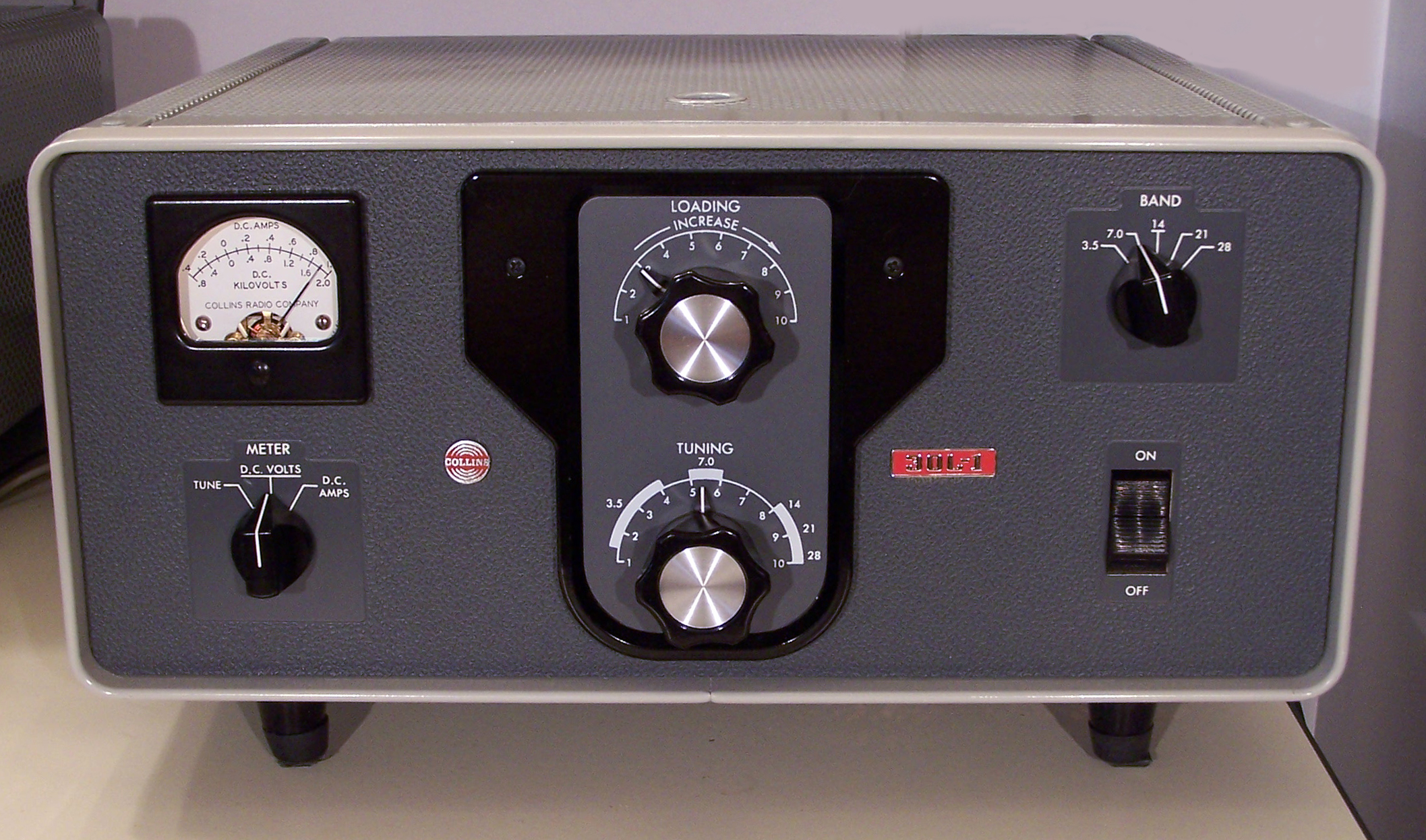 Collins 30L-1 desktop linear amplifier